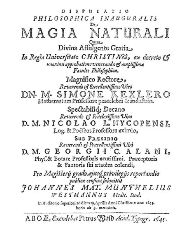 Dissertations first page of first finnish professor of physics Gergius Alavus. (full length 33 pages)